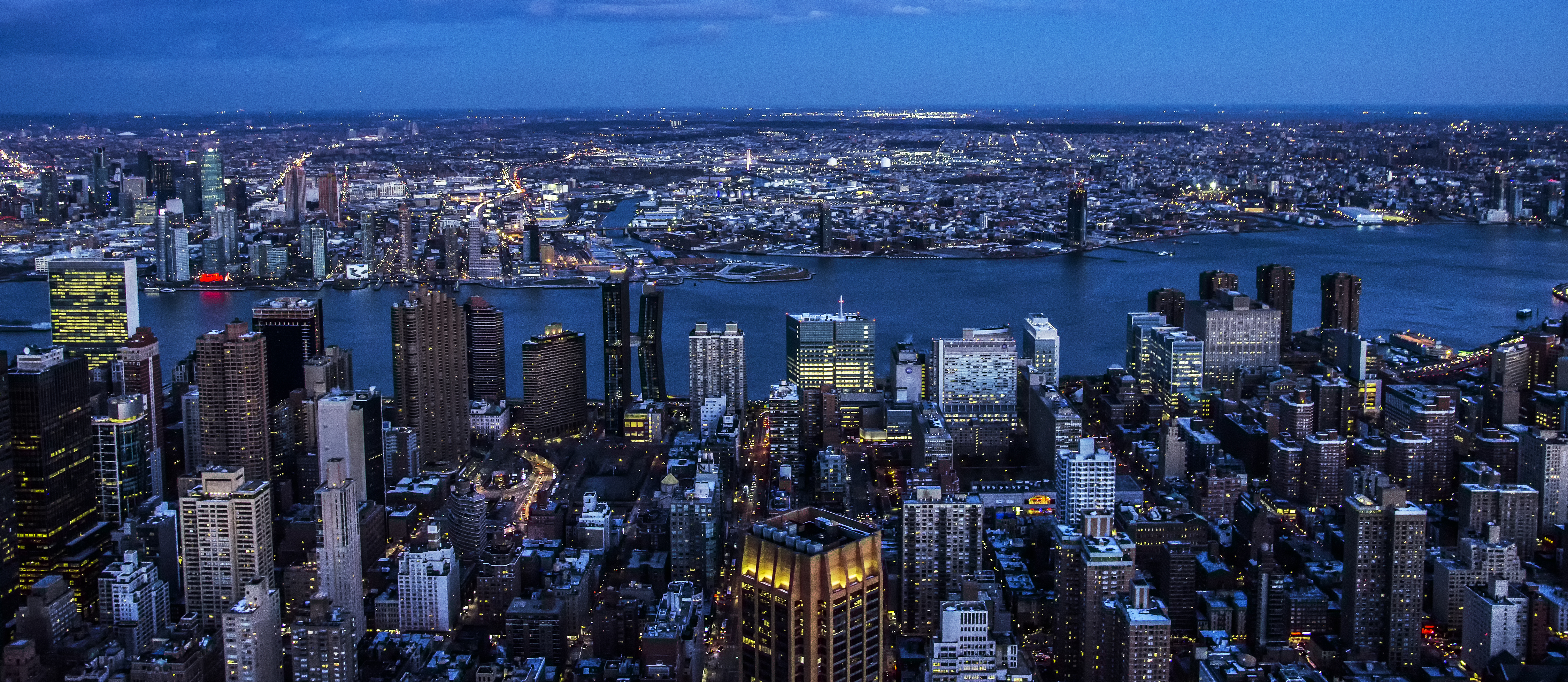 The New York City Skyline at Dusk